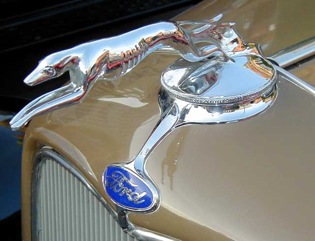 Ford Roadster hood ornament